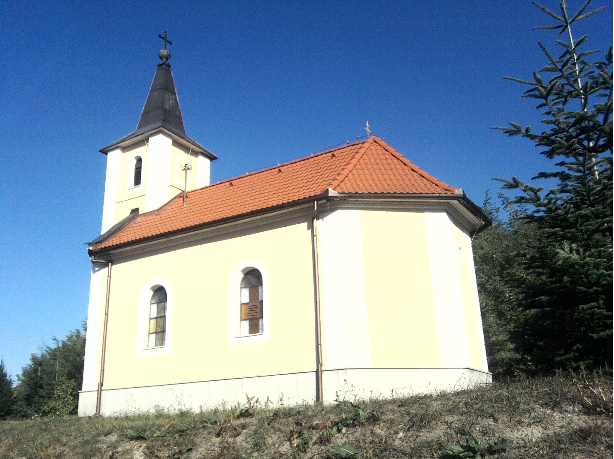 Malý Pesek, church